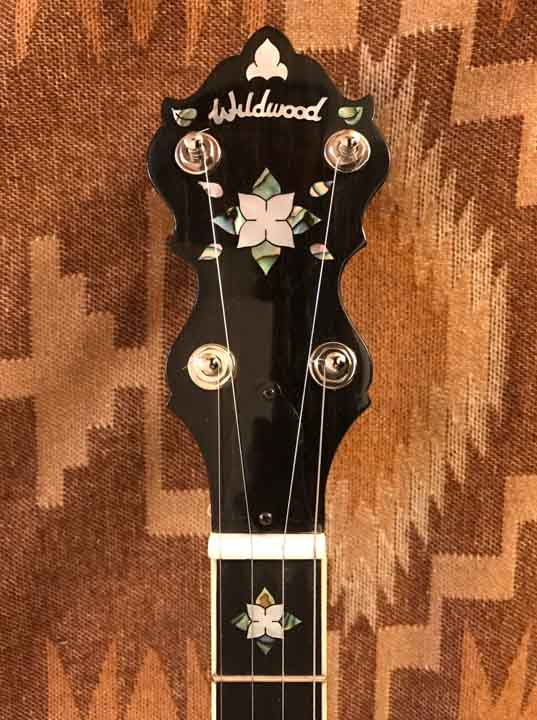 The following is an example of a Wildwood banjo, manufactured in 2016. The model is the Artist, featuring mother of pearl and abalone inlays, a bronze alloy flathead tone ring, and resonator. This one has a curly maple neck but it can also be in curly American black walnut.